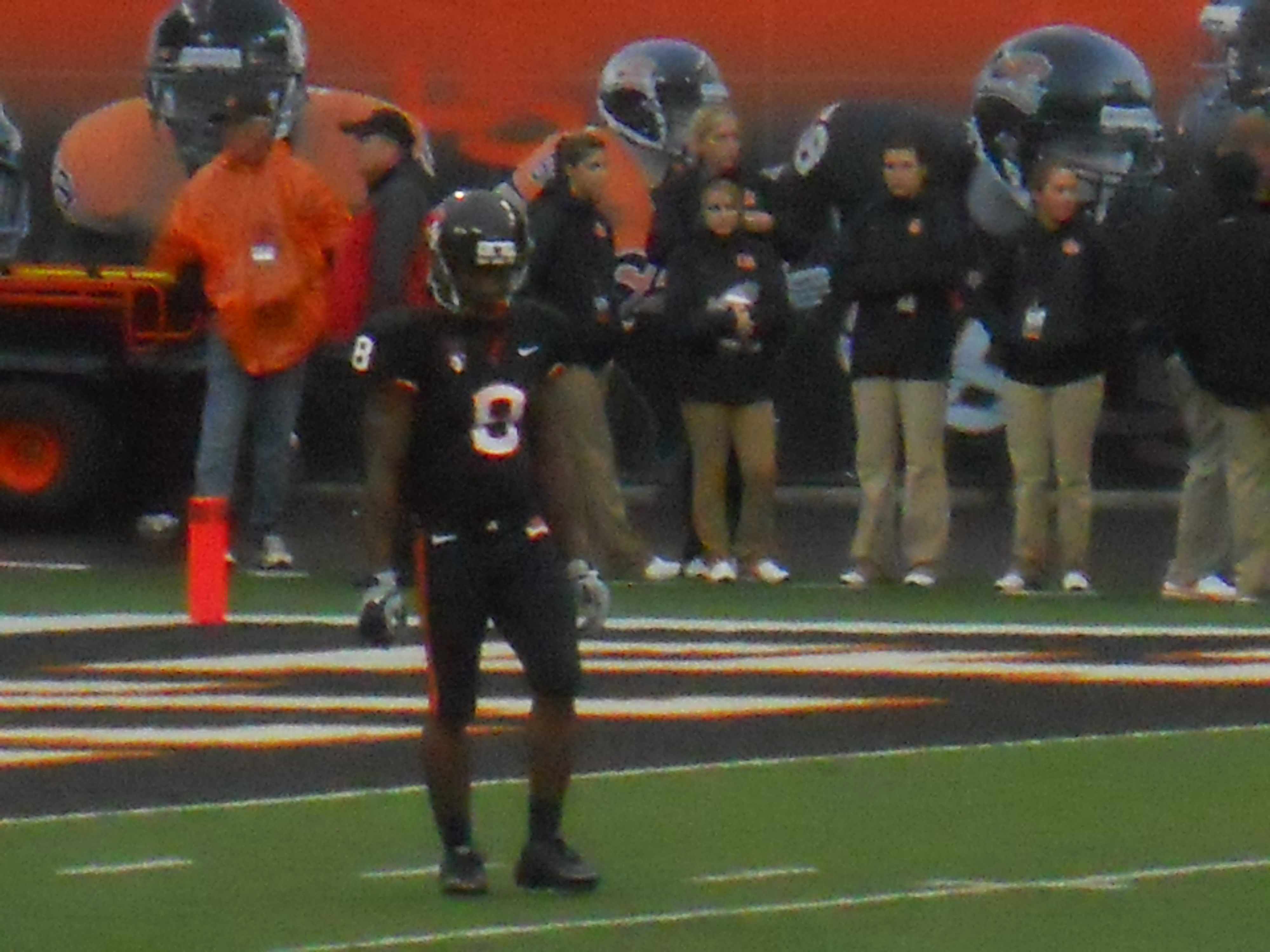 James Rodgers in a game vs the Louisville Cardinals on September 18, 2010.